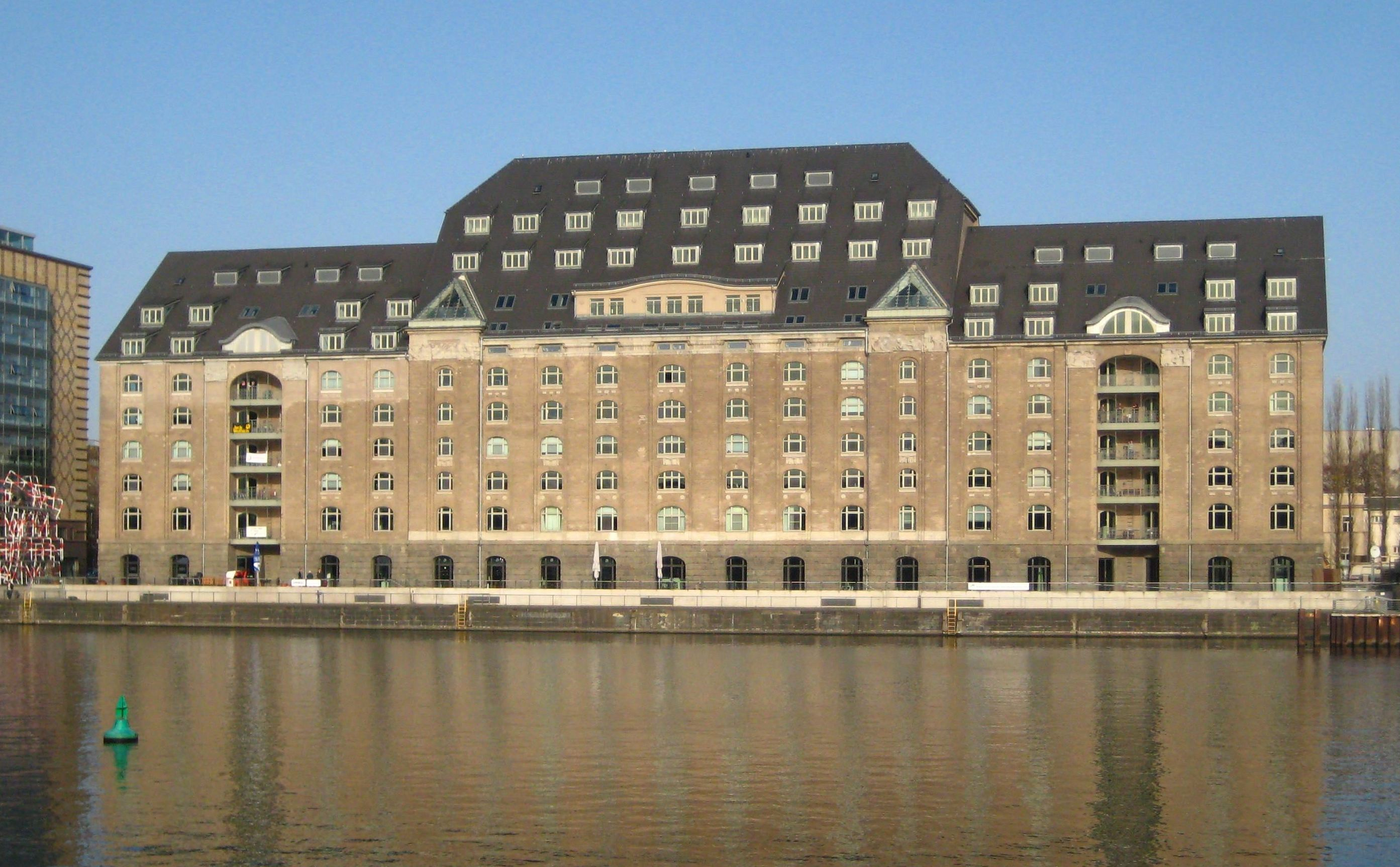 The former granary of Osthafen harbor on Stralauer Allee in Berlin-Friedrichshain, here seen from the Kreuzberg riverside of the Spree. It was built during the construction of the harbor (1907-1911) to a design by Friedrich Krause. In 2001/2001, it was renovated and rebuilt to house offices and lofts. The buildings has been designated as a historic landmark.